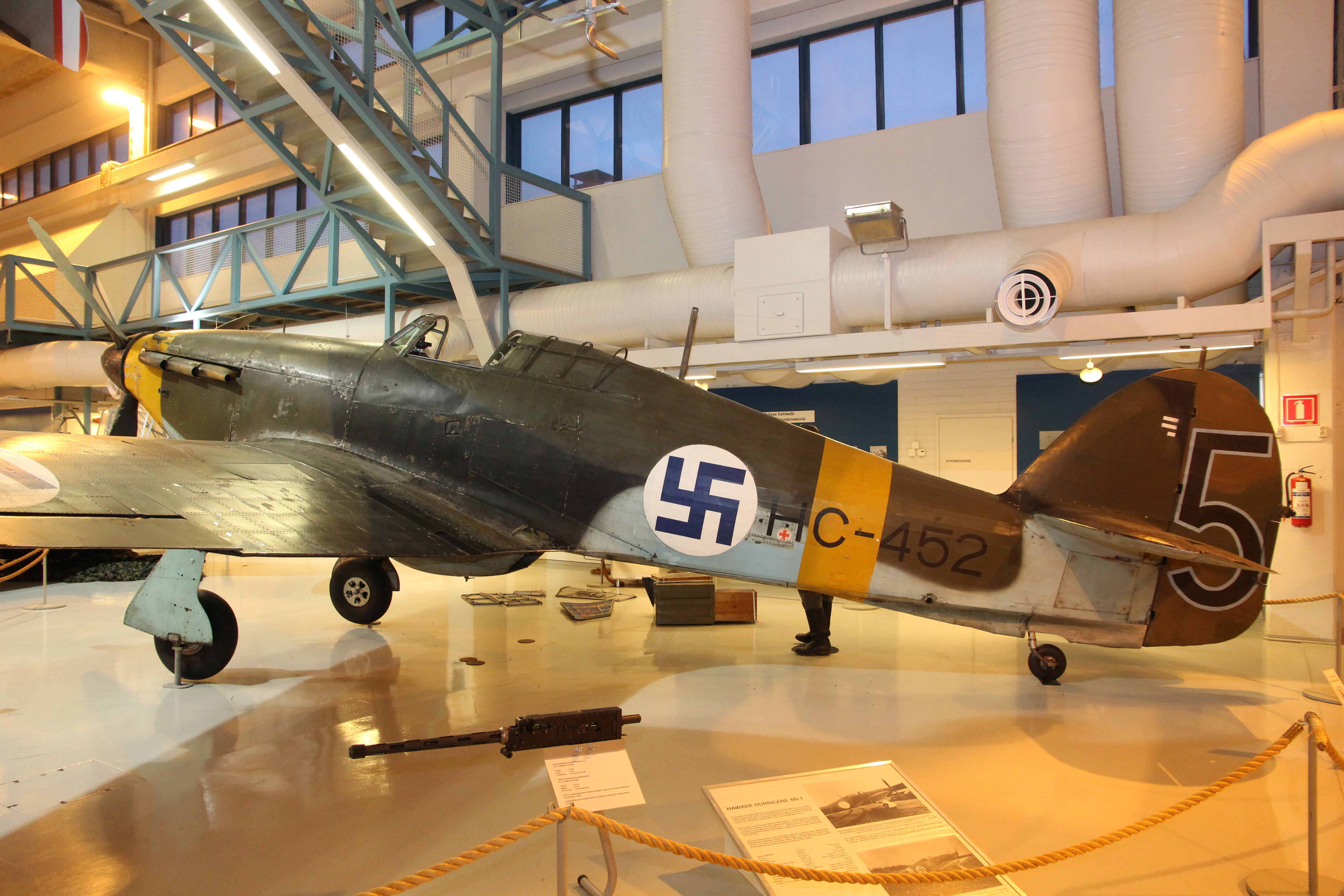 Hawker Hurricane Mk I fighter (HC-452) in the Aviation museum of Central Finland.